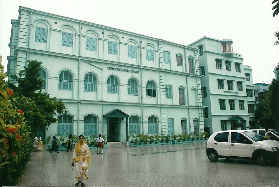 stjohnsschool